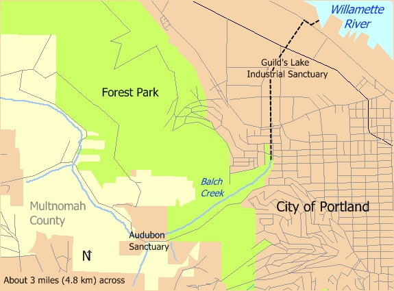 Map of Balch Creek in Portland, Oregon, United States, showing part of Forest Park as well as the boundaries between the city and unincorporated parts of Multnomah County. The dashed black line shows the route of the storm sewer through which the creek flows from Lower Macleay Park to the Willamette River.